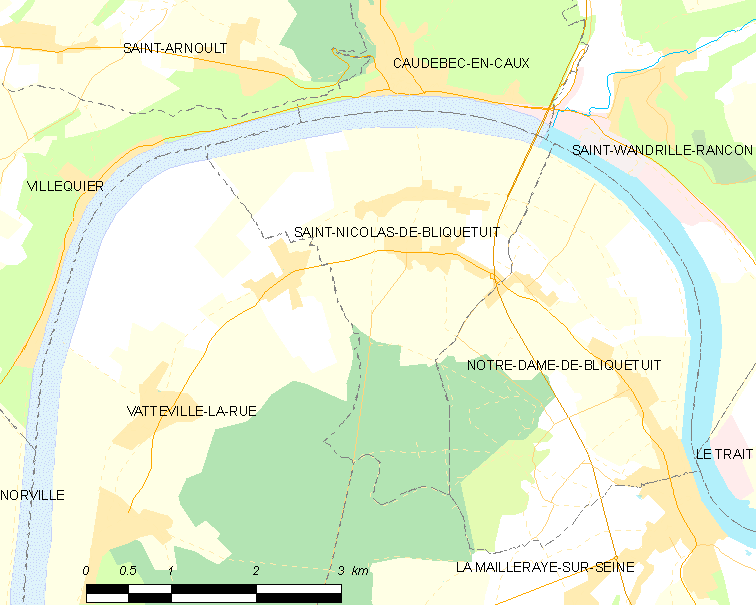 Map of French municipality Saint-Nicolas-de-Bliquetuit